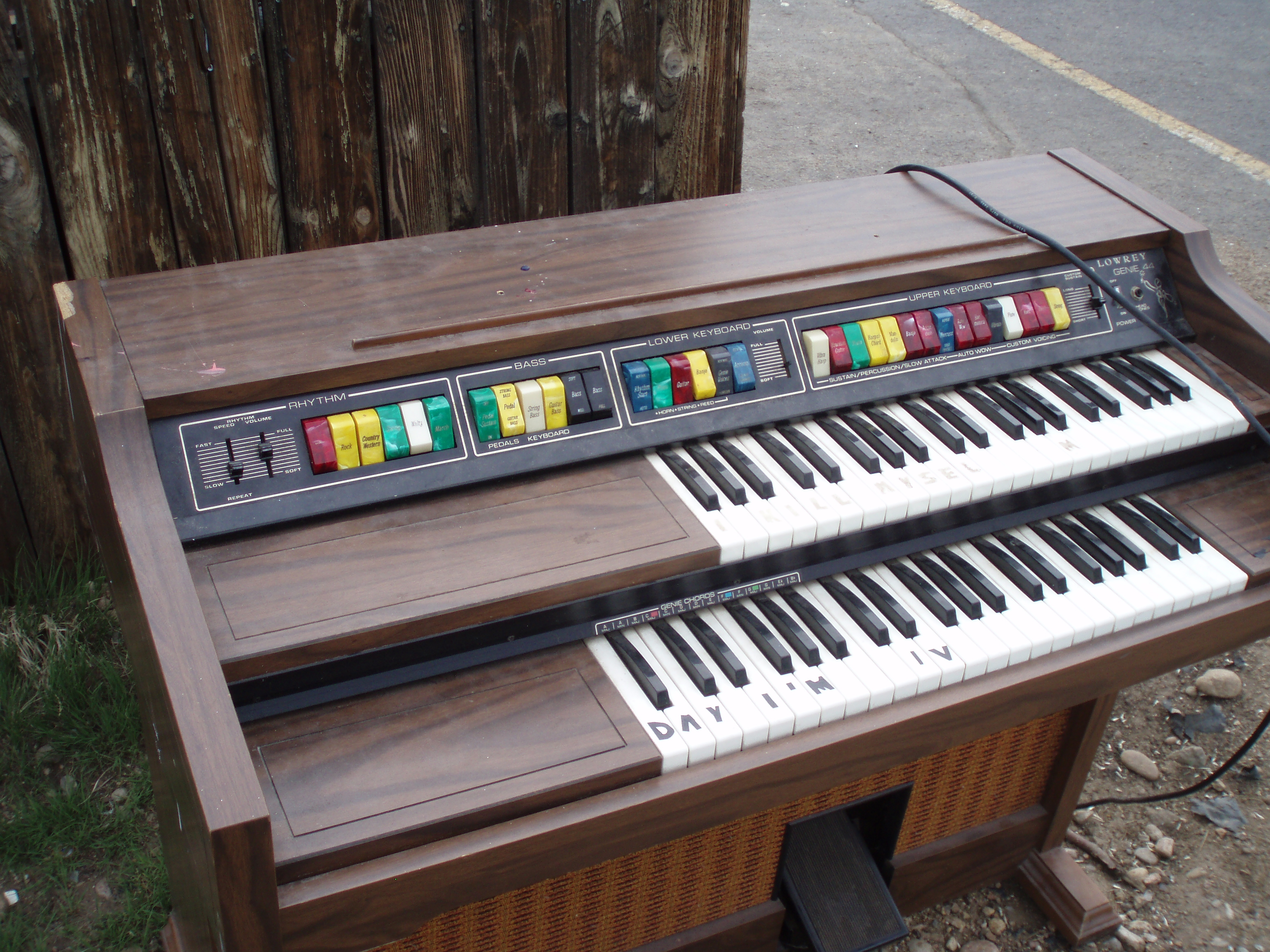 An abandoned Lowrey Genie 44 electronic organ on a street in Boulder, Colorado.